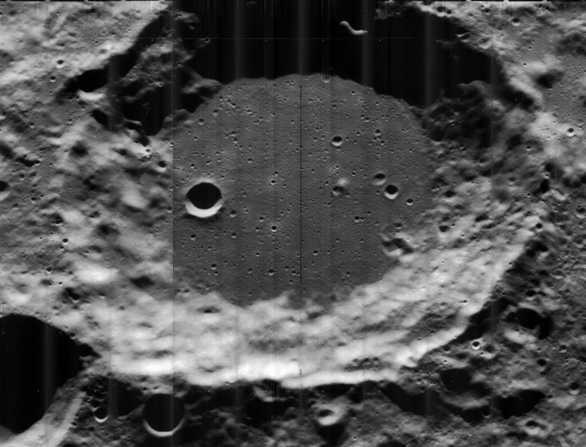 Oblique view of Coulomb, on the far side of the moon, facing west.